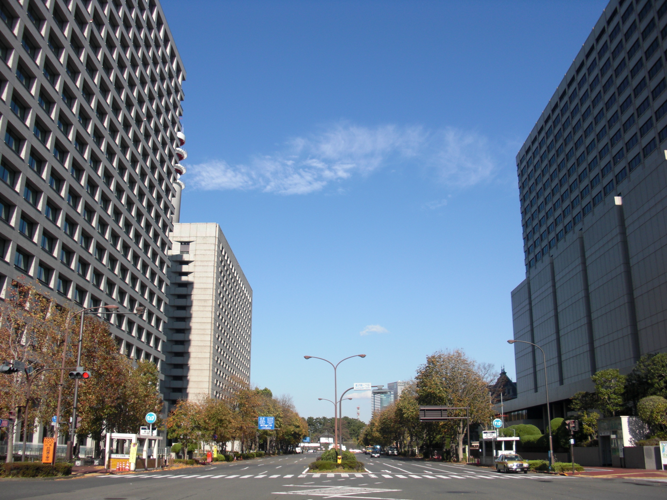 This is a landscape of Kasumigaseki 1 chome and 2 chome, Chiyoda, Tokyo, Japan. The left side of this picture is National Police Agency of Japan (Kasumigaseki 2 chome) and the right side of this picture is Tokyo High Court (Kasumigaseki 1 chome).